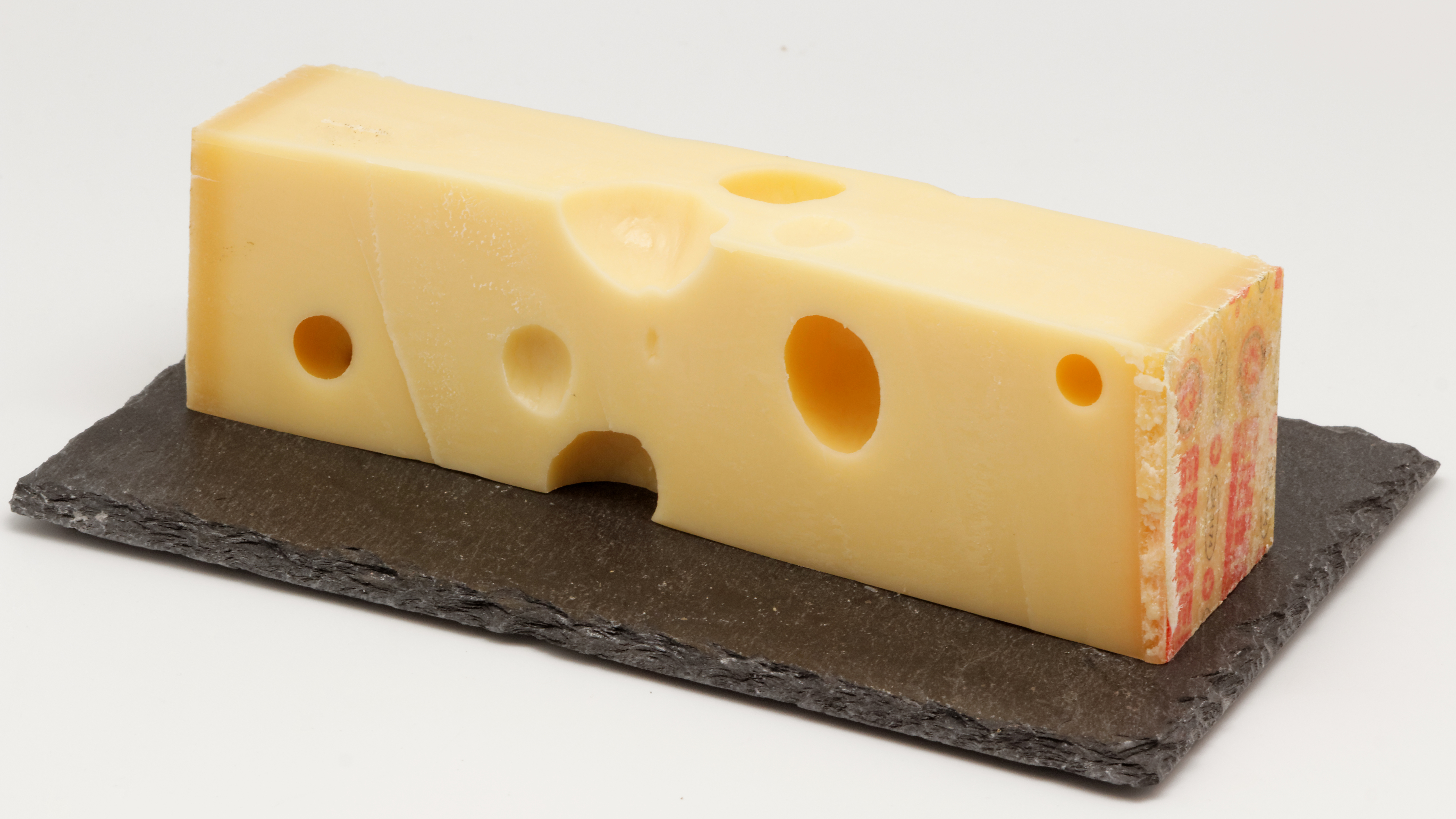 Emmental (cow's milk cheese)